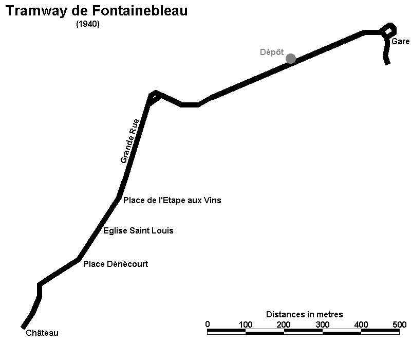 Map of Tramway de Fontainebleau, Île de France.